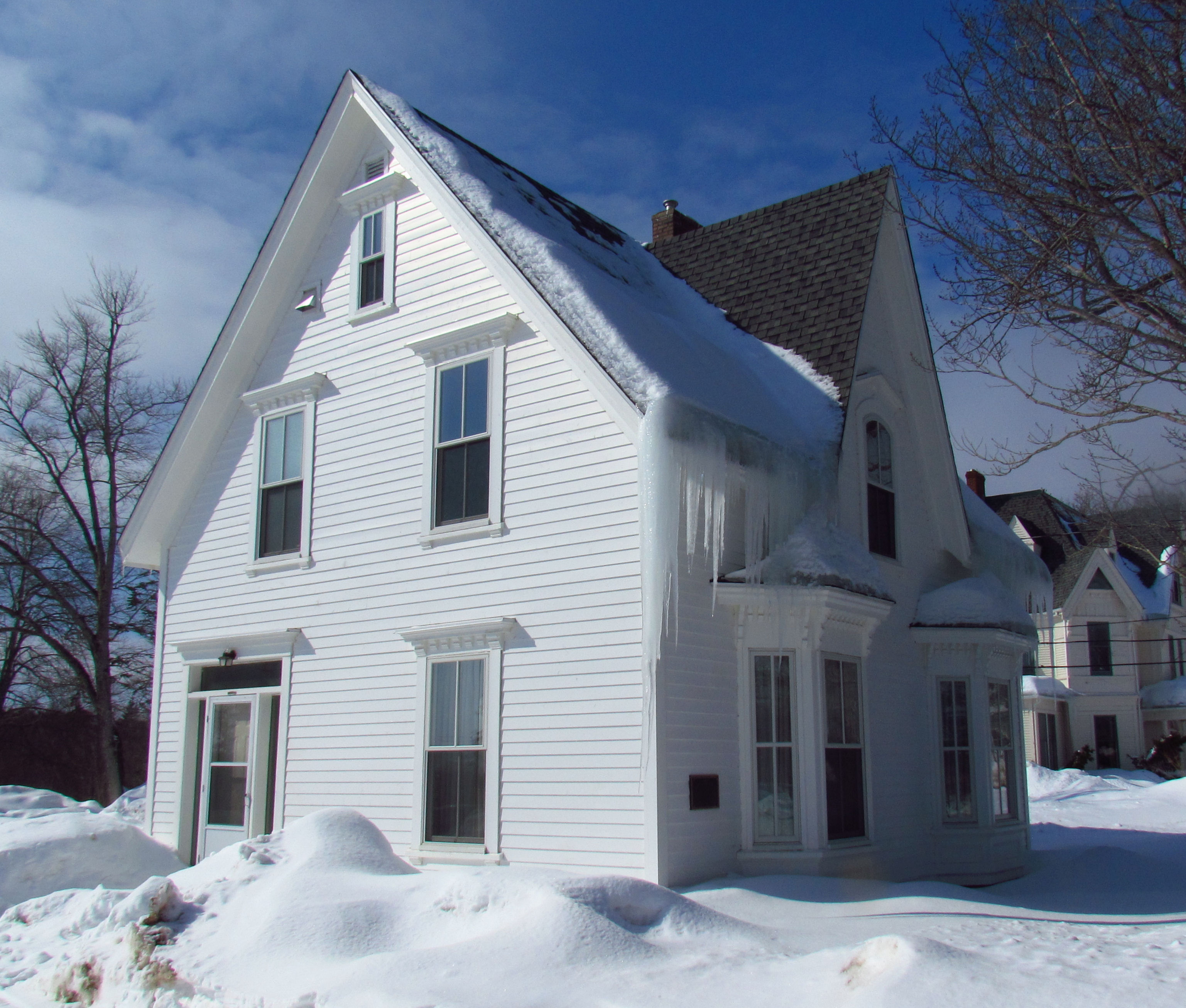 Colville House, Mount Allison University, Sackville, New Brunswick, Canada